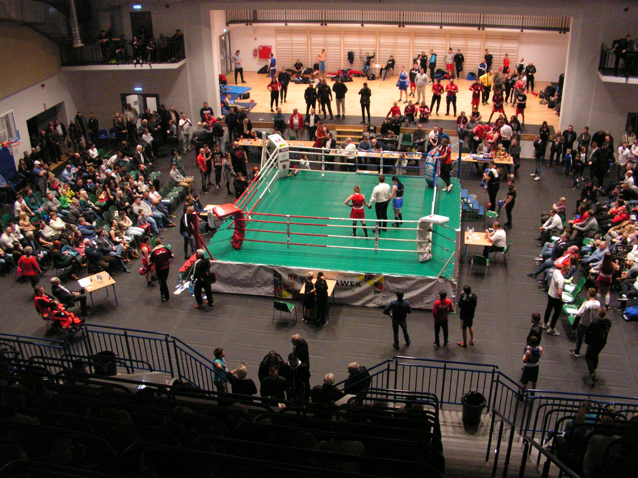 Waiting for verdict after fight during Boxing Tournament for President of Włocławek Cup in Hall of Ośrodek Sportu i Rekreacji (Sport and Recreation Centre) in Włocławek. Tournament was organised as a part of "Szukamy Olimpijczyków Tokio 2020" ("We are looking for Olympians Tokio 2020") series, and also in occasion of 65 anniversary of Włocławski Klub Bokserski Start (Włocławek's Boxing Club Star) and Independence Day.